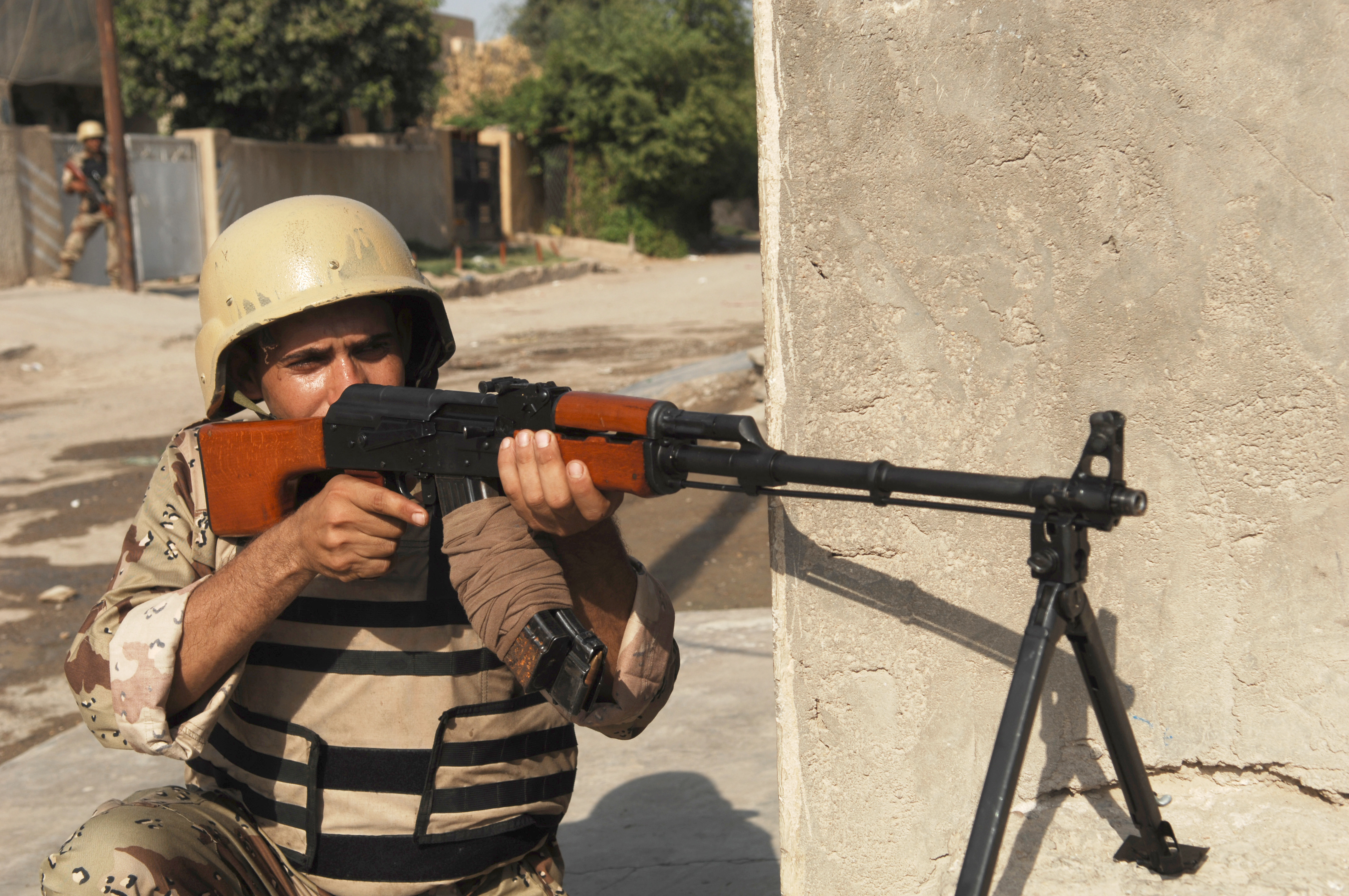 An Iraqi army soldier provides security on a joint patrol with U.S. Army Soldiers from 3rd Squadron, 2nd Stryker Cavalry Regiment out of Vilseck, Germany, in the East Rashid district of Baghdad, Iraq.